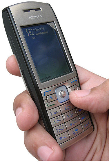 Nokia E50 smartphone in hand using position